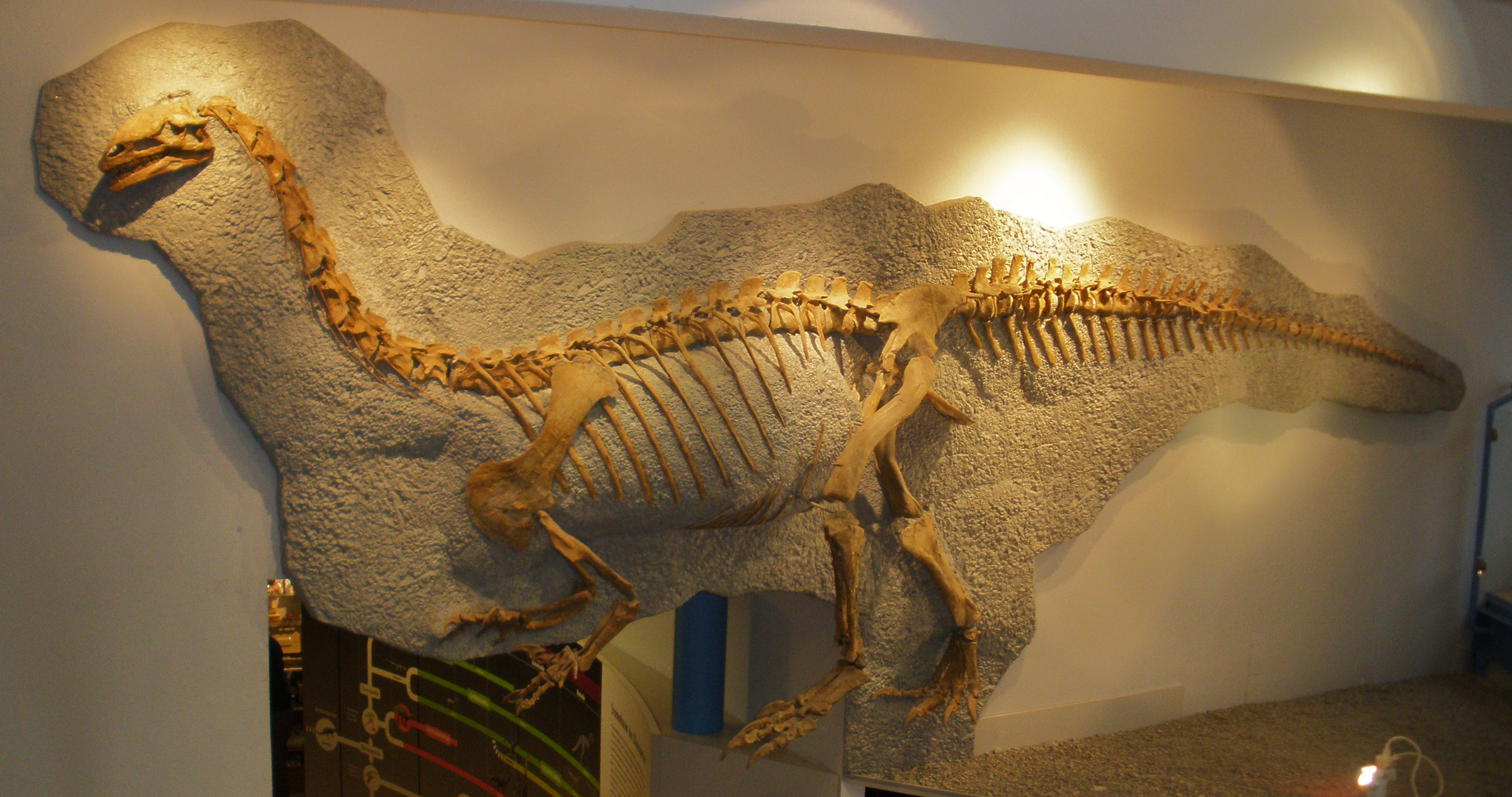 Fossil of Plateosaurus engelhardti, a dinosaur